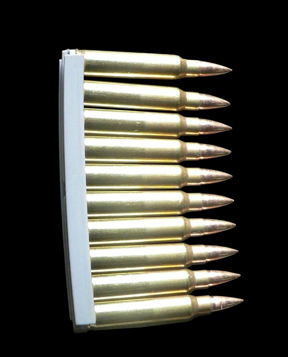 Stripper clip